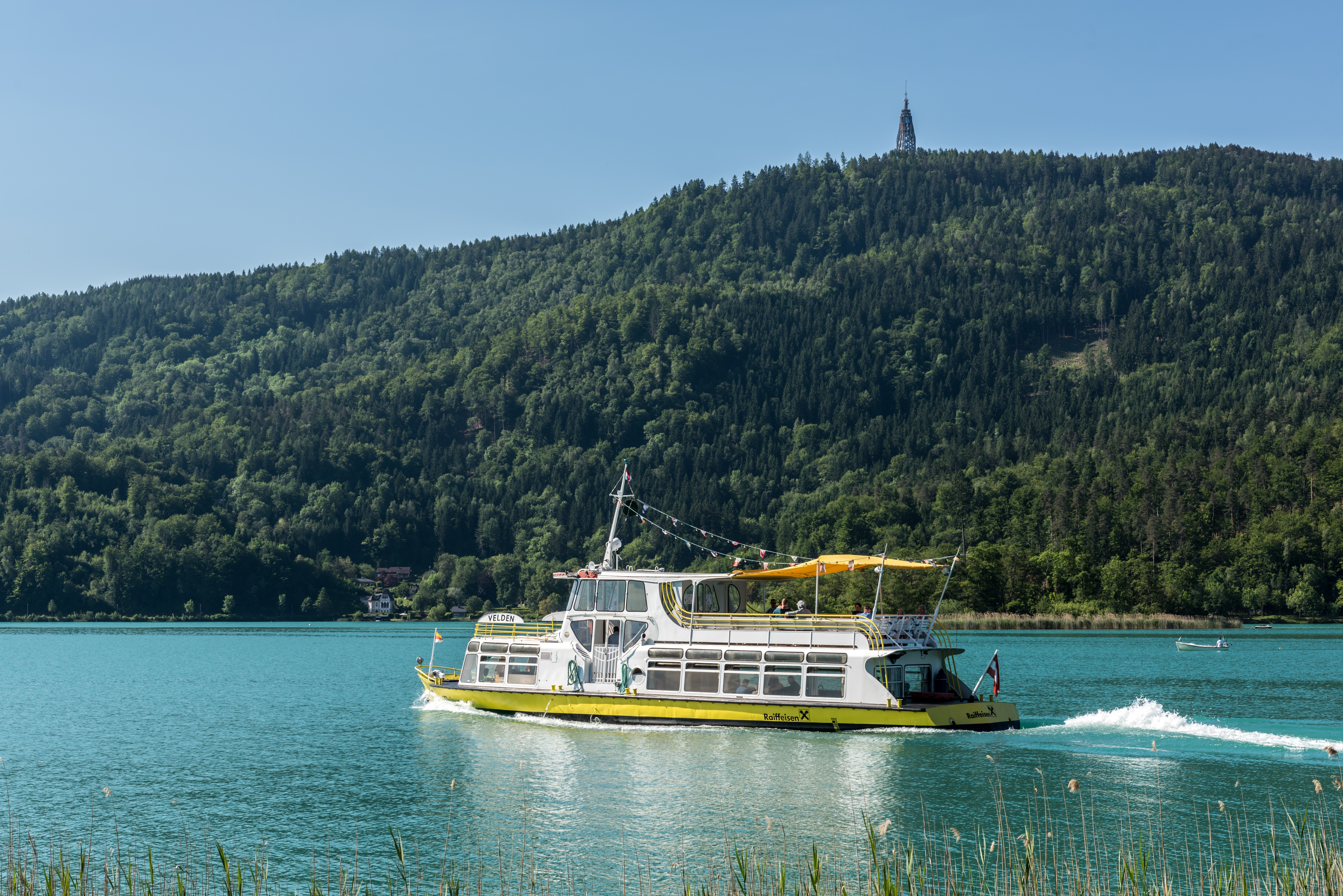 Motorship «Velden» after leaving the landing stage on «Landspitz», municipality Poertschach on the Lake Woerth, district Klagenfurt Land, Carinthia, Austria, EU